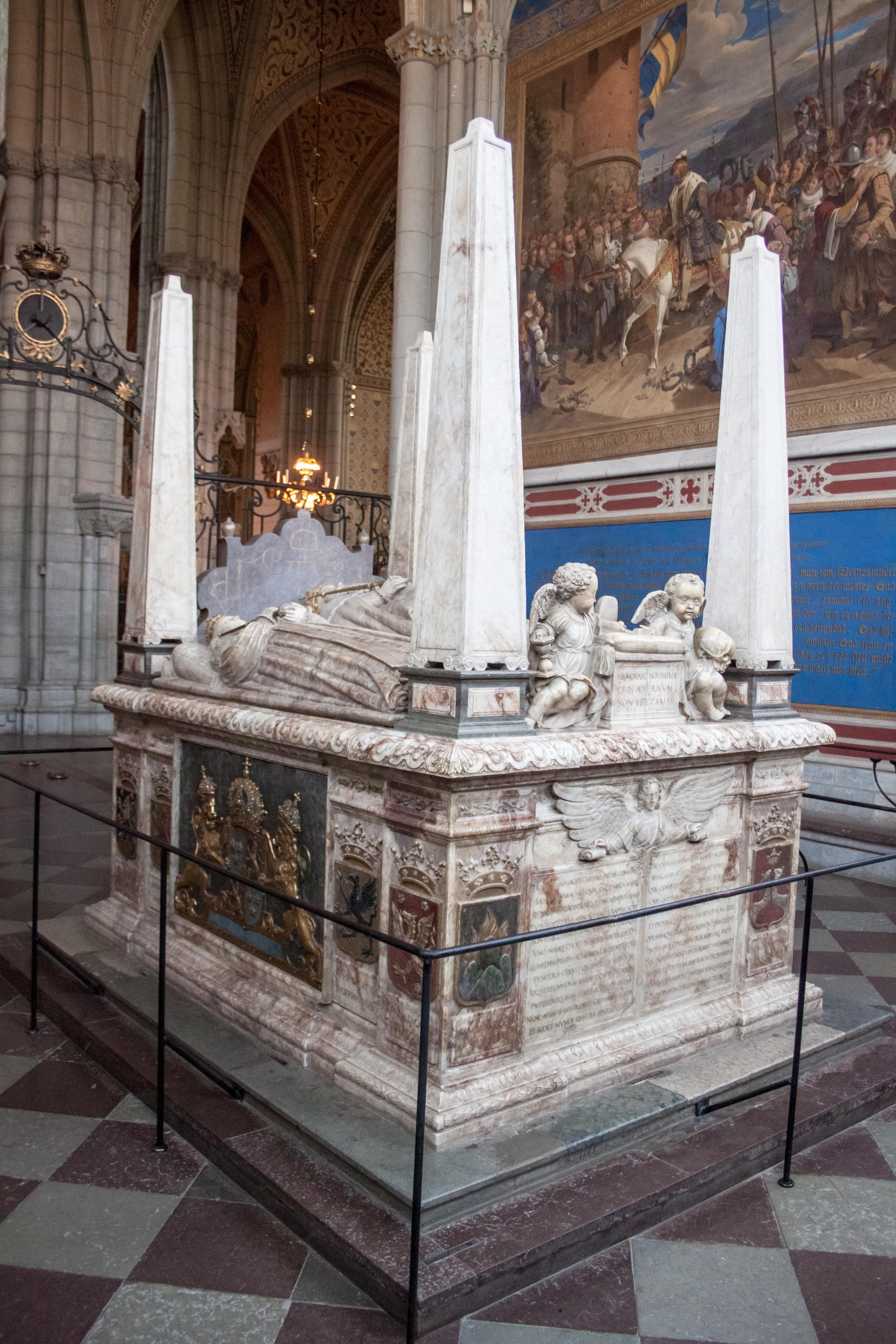 Uppsala cathedral